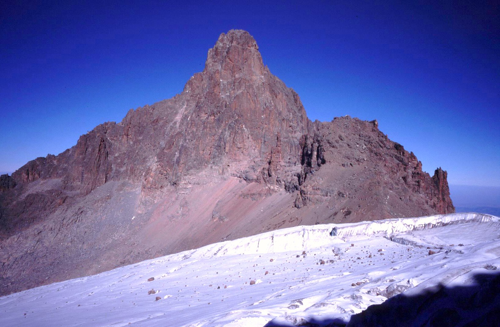 Mount Kenya